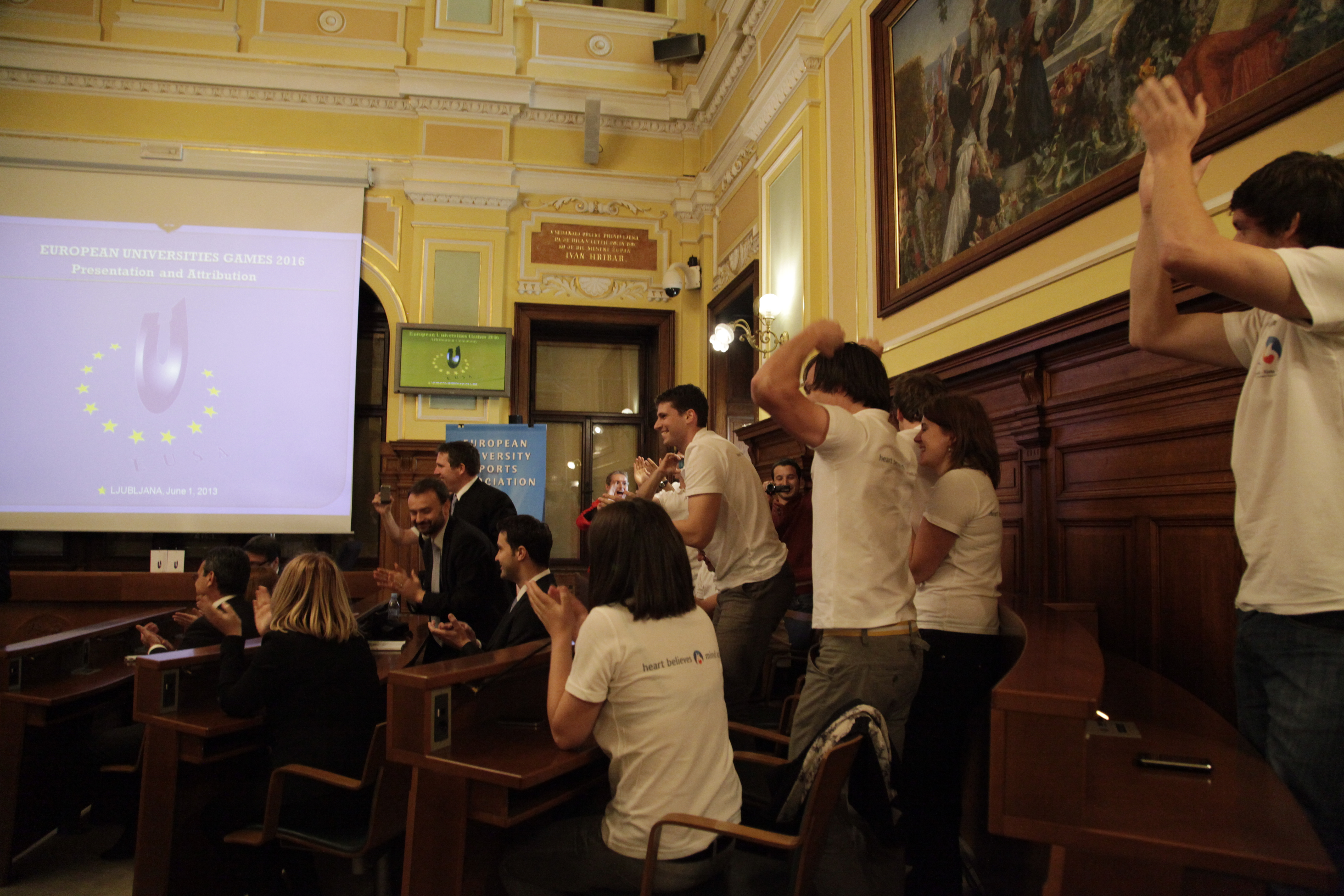 Winning bid of EUG2016